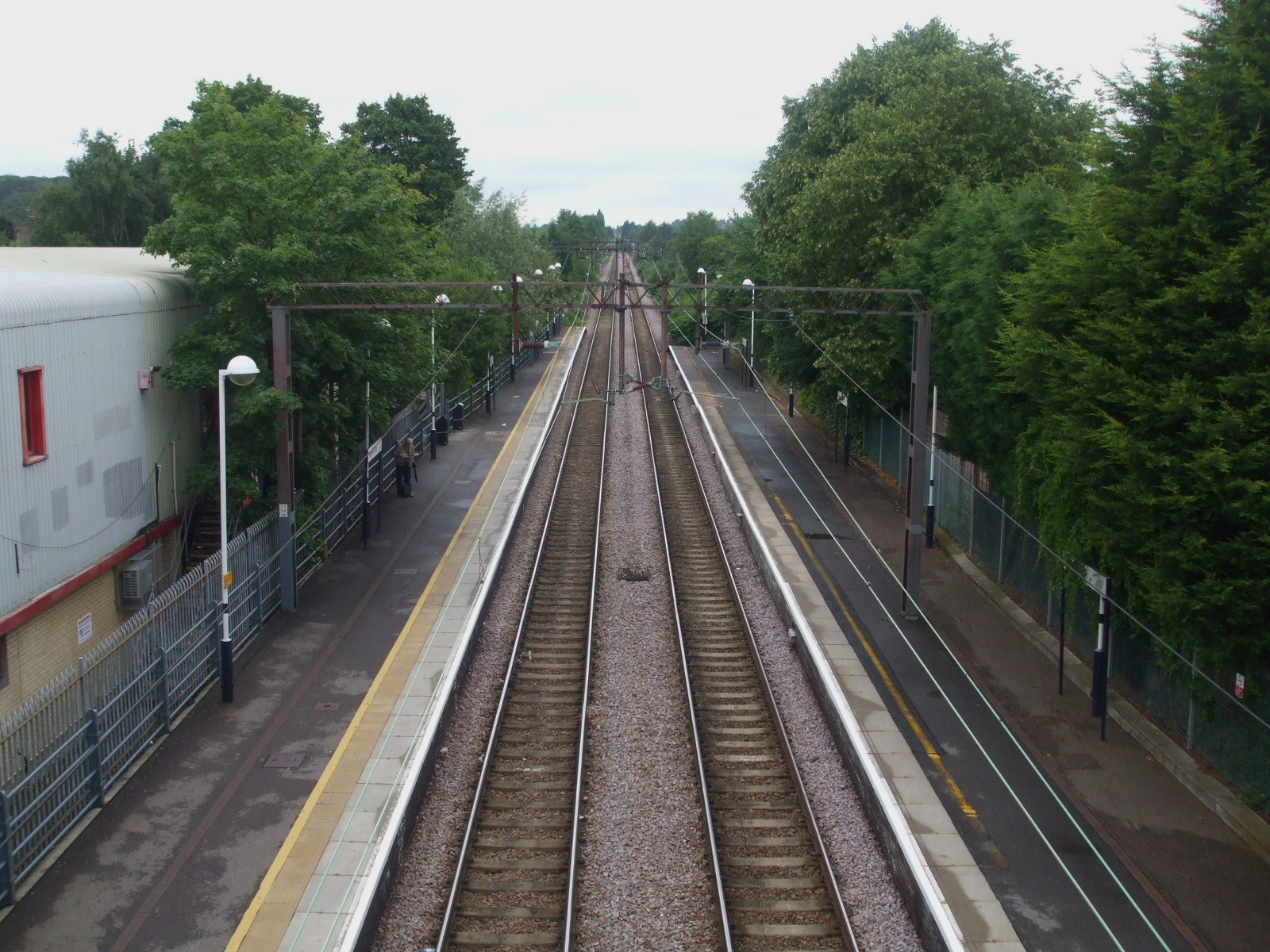 Highams Park station looking north from footbridge